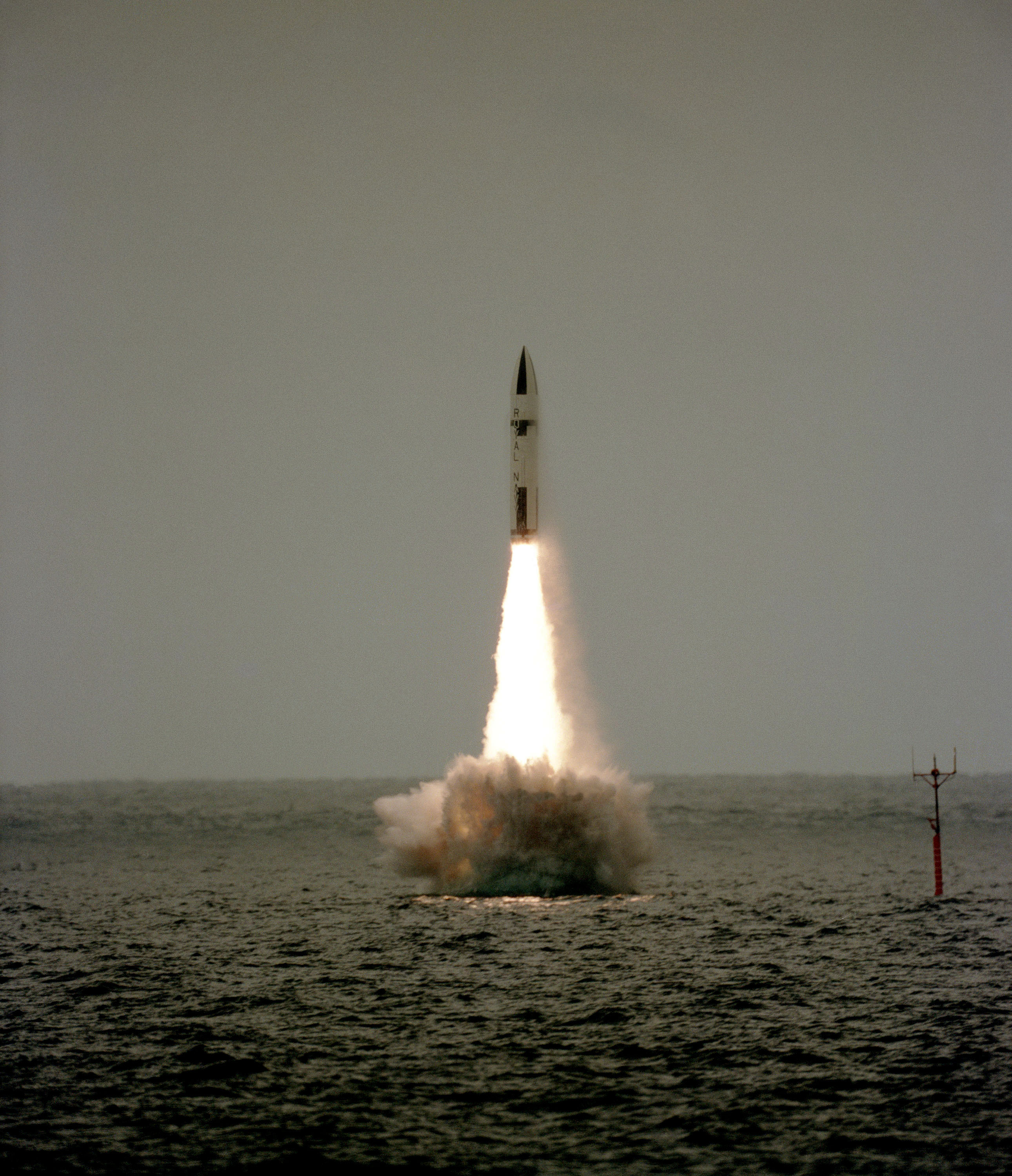 A Polaris missile lifts off after being fired from the submerged British nuclear-powered ballistic missile submarine HMS Revenge (S27) off the coast of Florida (USA) near Cape Canaveral Air Force Station. This was the 10th in a series of Polaris test flights.